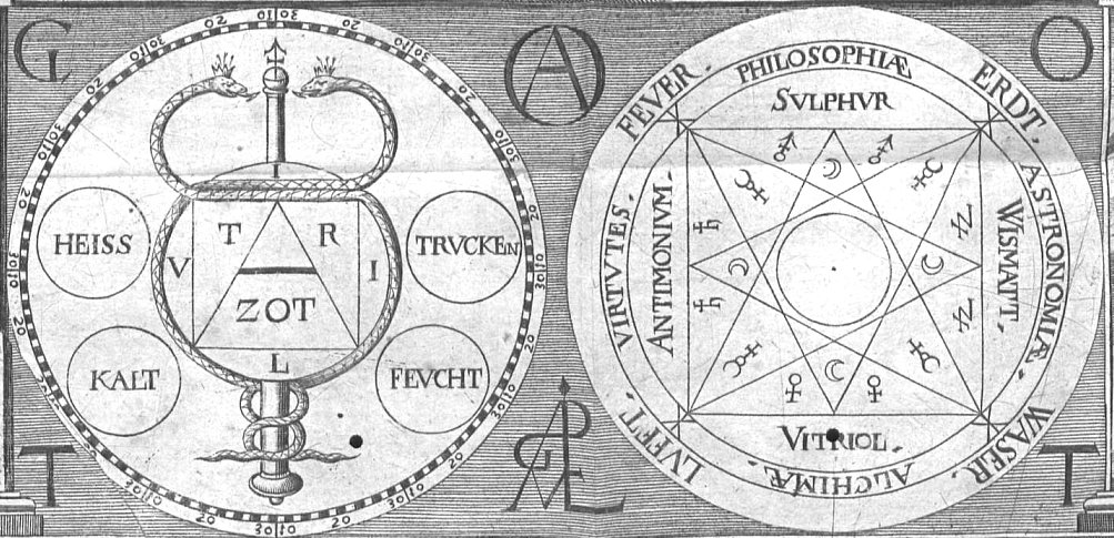 Detail from Der Spiegel der Kunst und Natur, plate 1, by Stephan Michelspacher, Augsburg 1615, cropped from File:Cabala, Speculum Artis Et Naturae In Alchymia by Stephan Michelspacher (1654) (dresden).jpg “two circular diagrams with the German GOTT (the name of God) around the outside, and also the Alpha and Omega and the monograph which may be the name of God, Agla.” —Adam MacLean, "Alchemical Mandala No. 6", Hermetic Journal (1979)